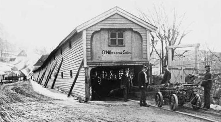 Historic photo of Nilsebanen, Sandviken, Bergen, Norway.